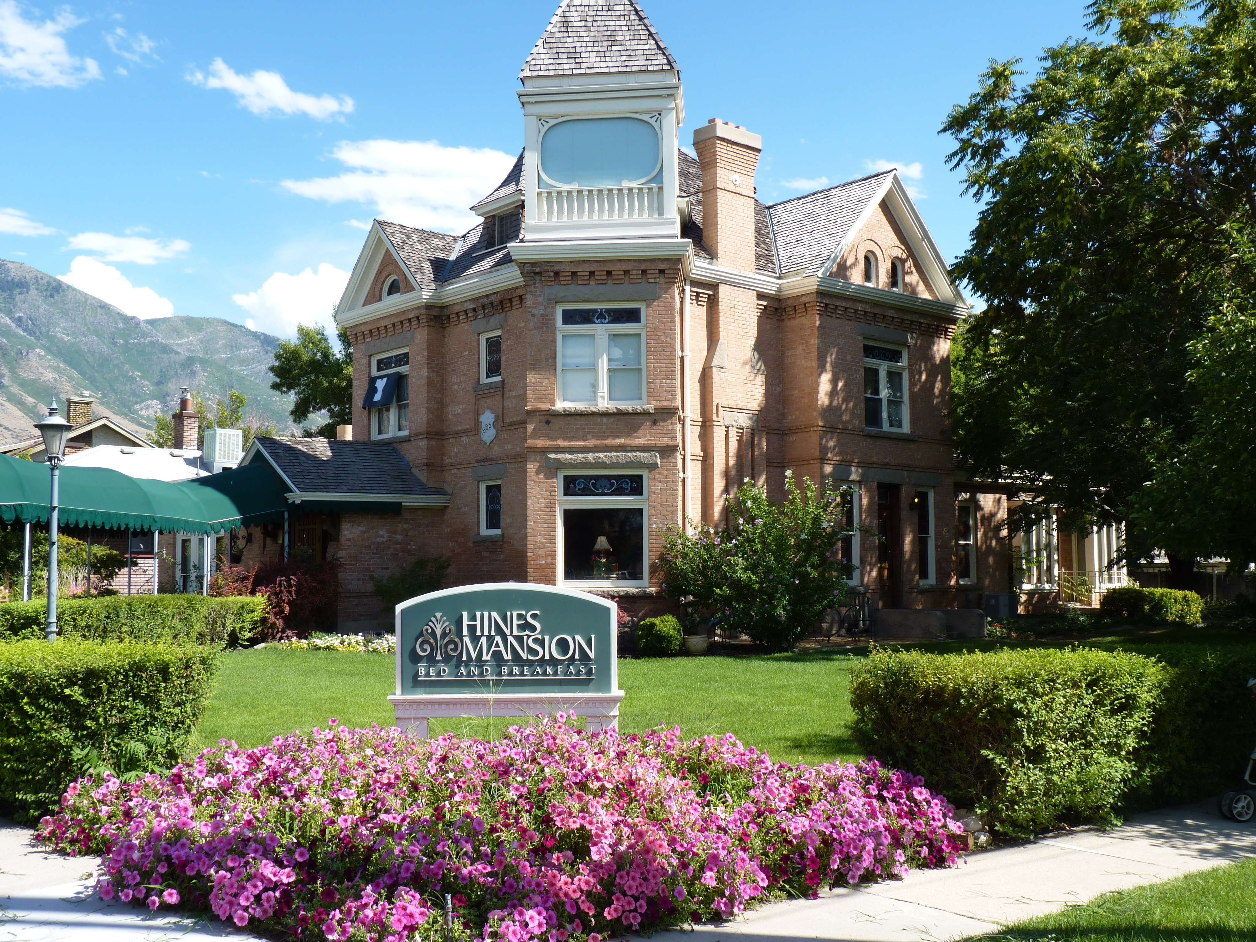 The Hines Mansion is located at 400 West 125 South in Provo, Utah, and is on the city's historic landmark registry. It currently serves as a bed and breakfast service.